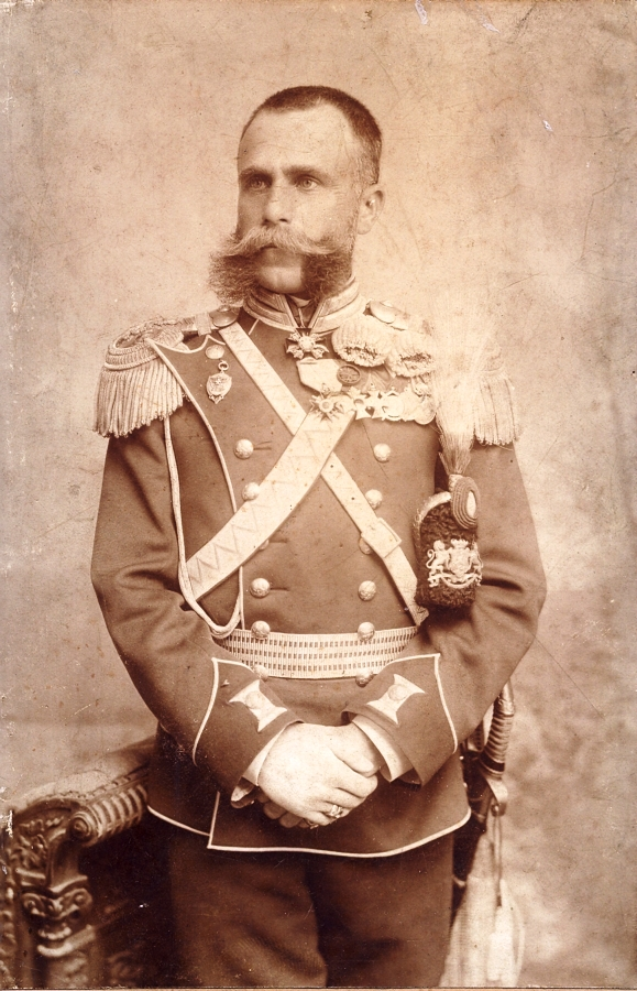 Bulgarian colonel Veliko Kardzhiev (1858-1953)